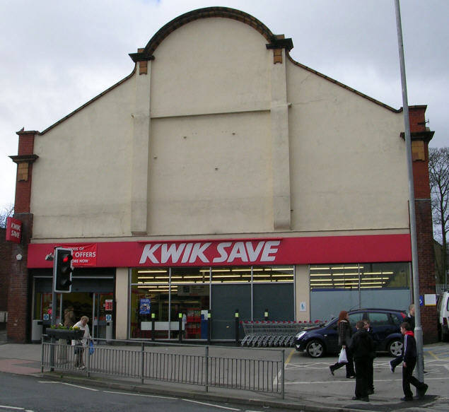 KwikSave, Church Lane Formerly The Picture House Cinema